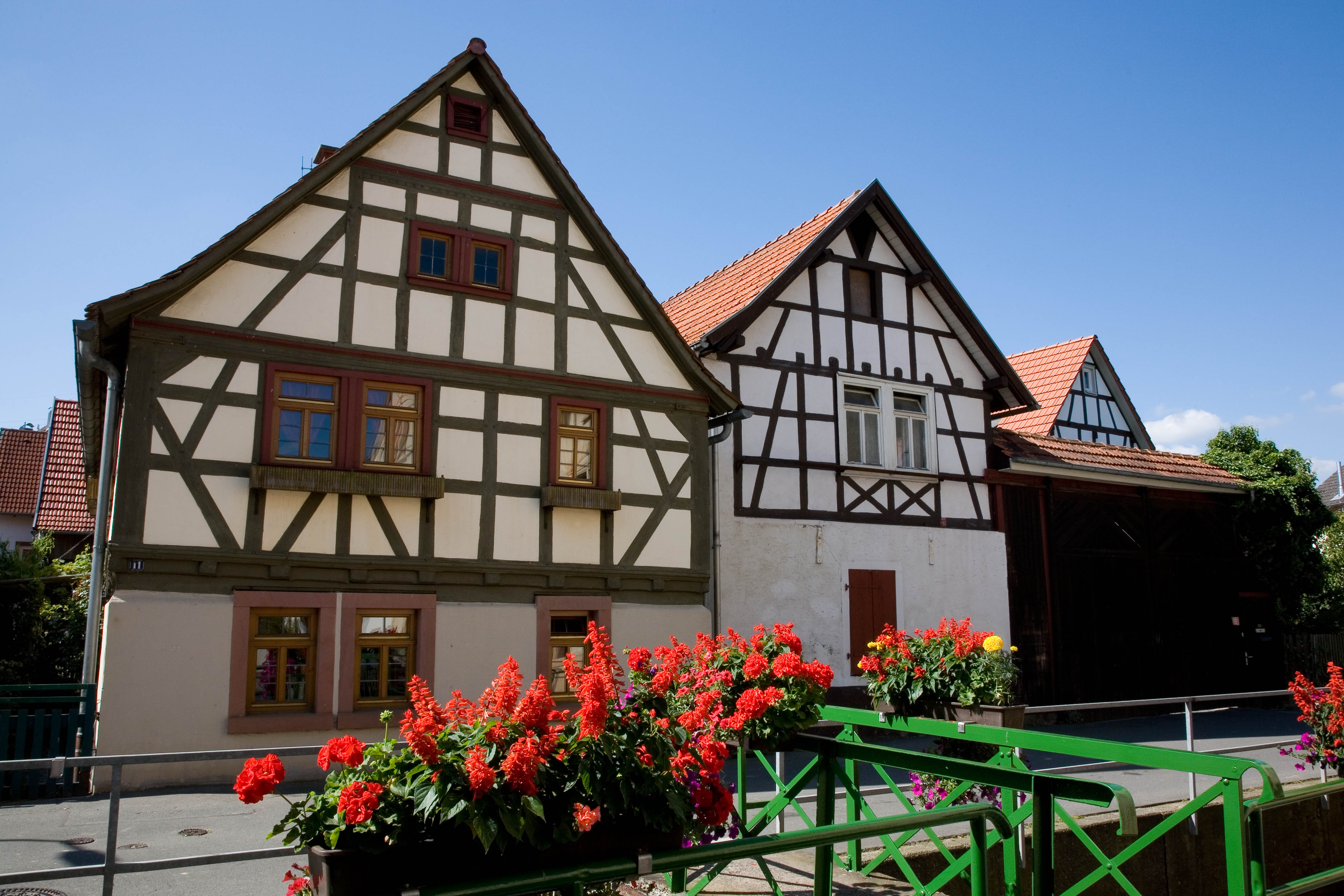 Timbered houses in the Bachgasse of Nieder-Kainsbach